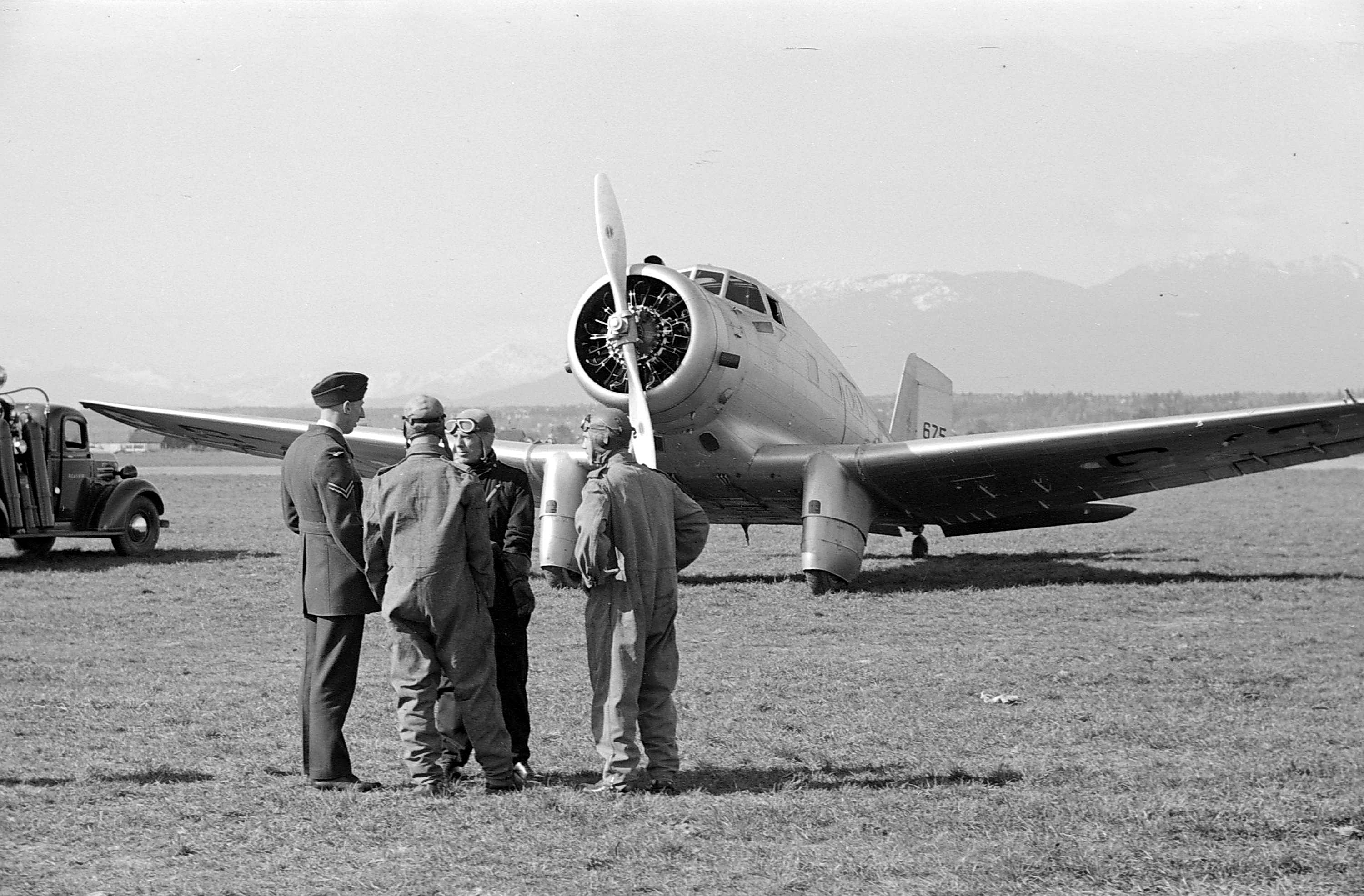 A Northrop Delta Mk. 1 (R.C.A.F. 675) airplane.